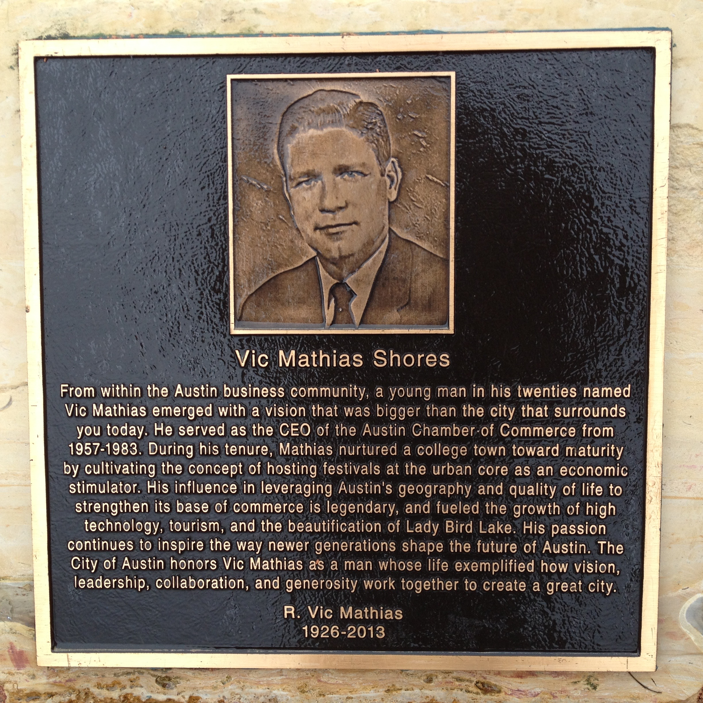 A plaque honoring Vic Mathias, placed on a stone at Vic Mathias Shores, part of Auditorium Shores at Town Lake Metropolitan Park in Austin, Texas.